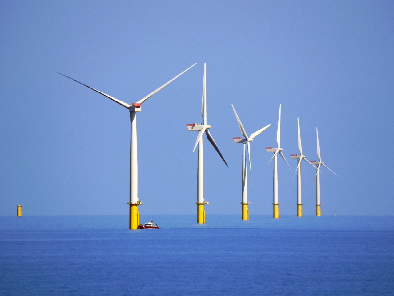 Walney Offshore Windfarm. Uploader's Note: Both the coordinates and description for this photo are rather vague, but it probably does show the Walney Wind Farm which was under construction throughout 2011, and which consists of 6 parallel rows of wind turbines as this photo shows. The nearby Ormonde Wind Farm was also under construction in 2011, but consists of 4 rows of 7 or 8 turbines and uses a different make of turbine. It also can not be the nearby Barrow Wind Farm (which was completed by 2006), nor the West of Duddon Sands Wind Farm (for which construction began in 2013).